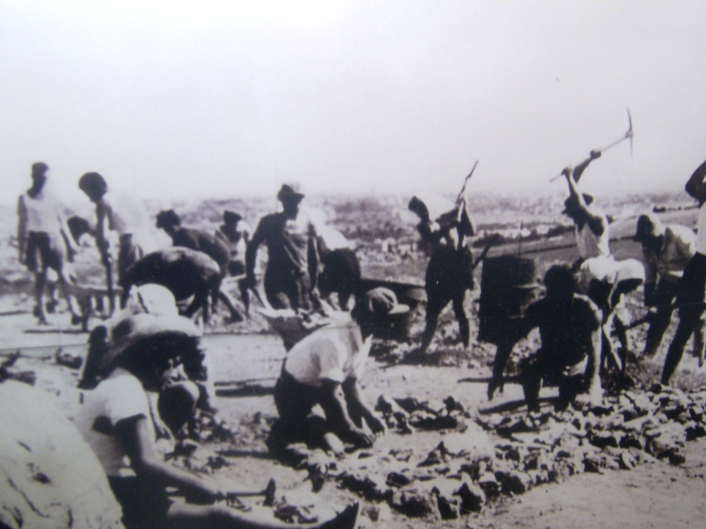 Roads in the valley, the route put large stones including small stones and gravel - very hard work physically